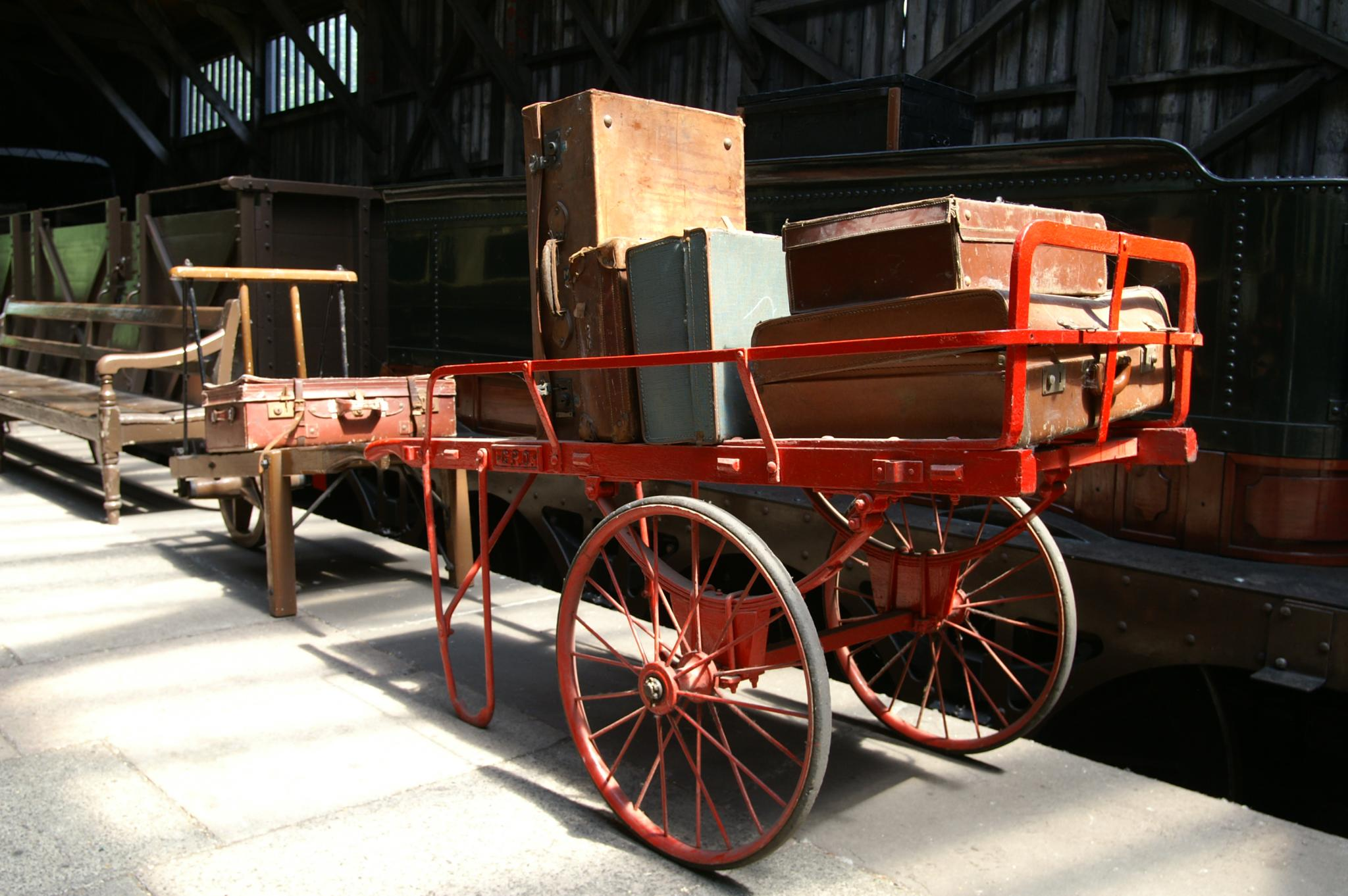 Didcot Railway Centre